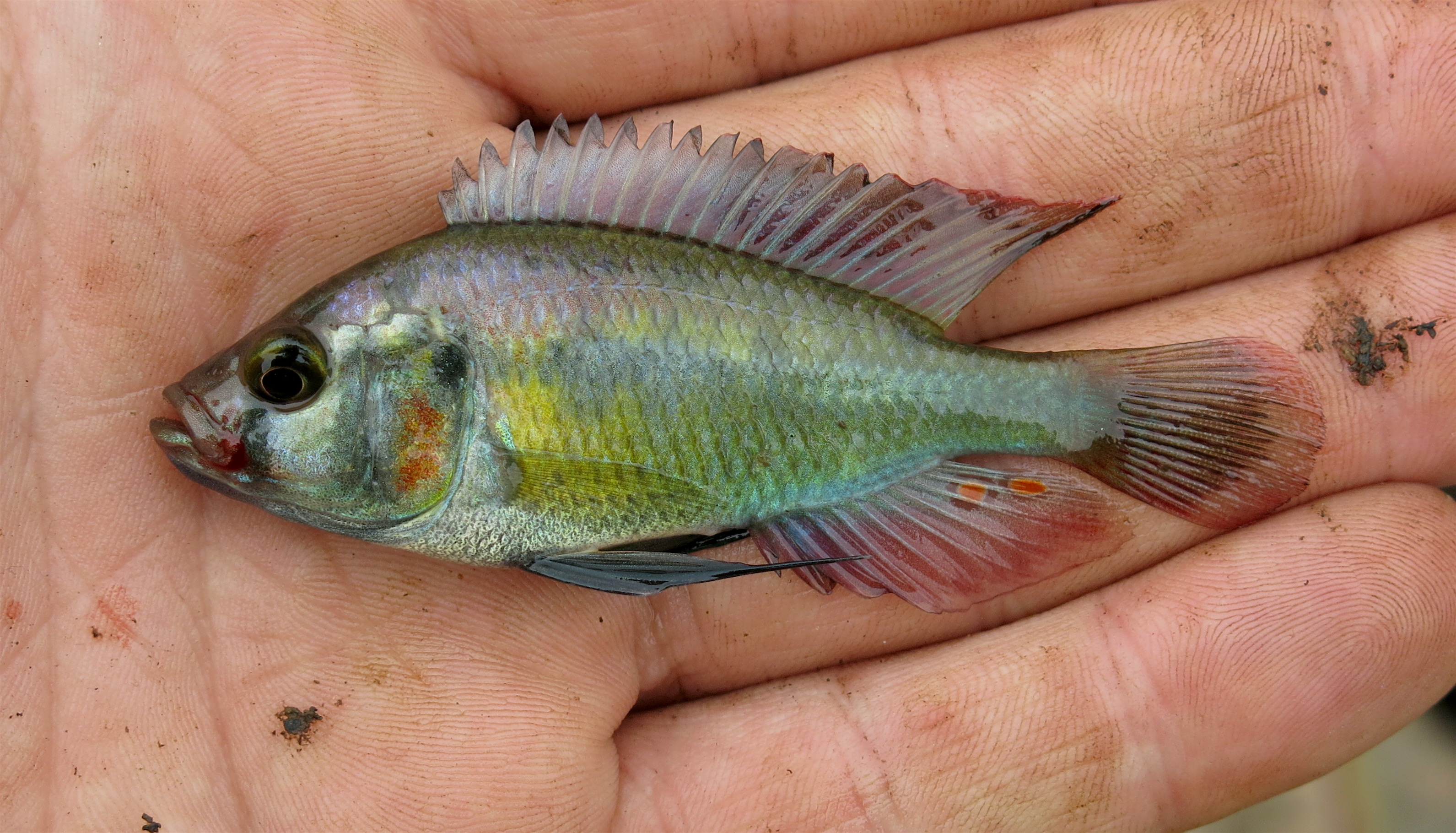 A male A. stappersi caught at Gatumba, Burundi